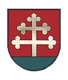 Coat of arms of Pforzheim Converted into PNG format and transparency added by Enslin.